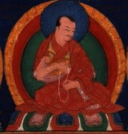 Konchok Tsultrim, 14th Century Sakya Lama